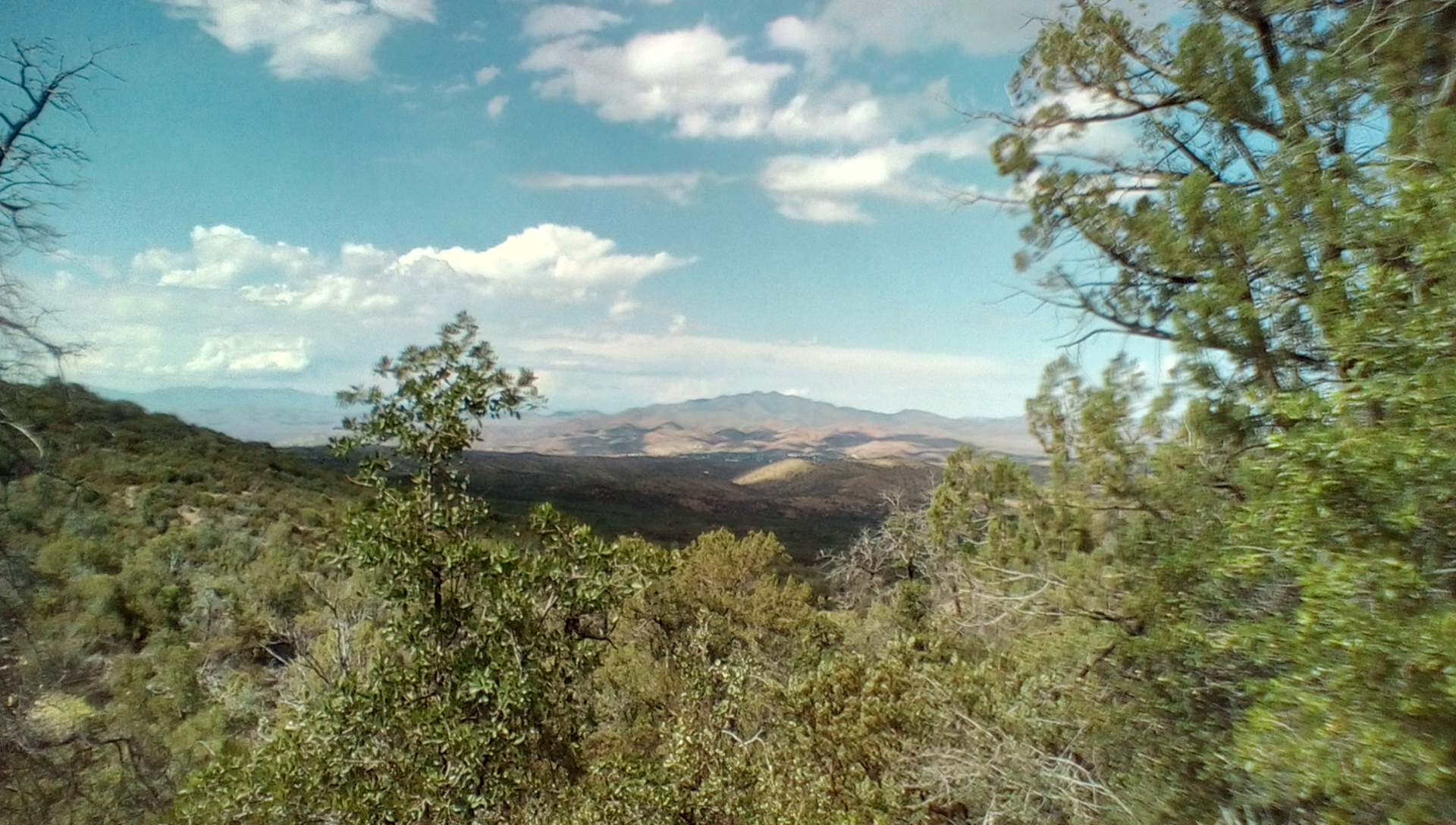 View of the Blackjack Mountains, picture taken from the north face of the Pinal Mountains looking north at the Blackjack Mountains, both in Gila County, AZ. Estimated distance from the Blackjack Mountains at the time of the picture, is 15-20 miles.